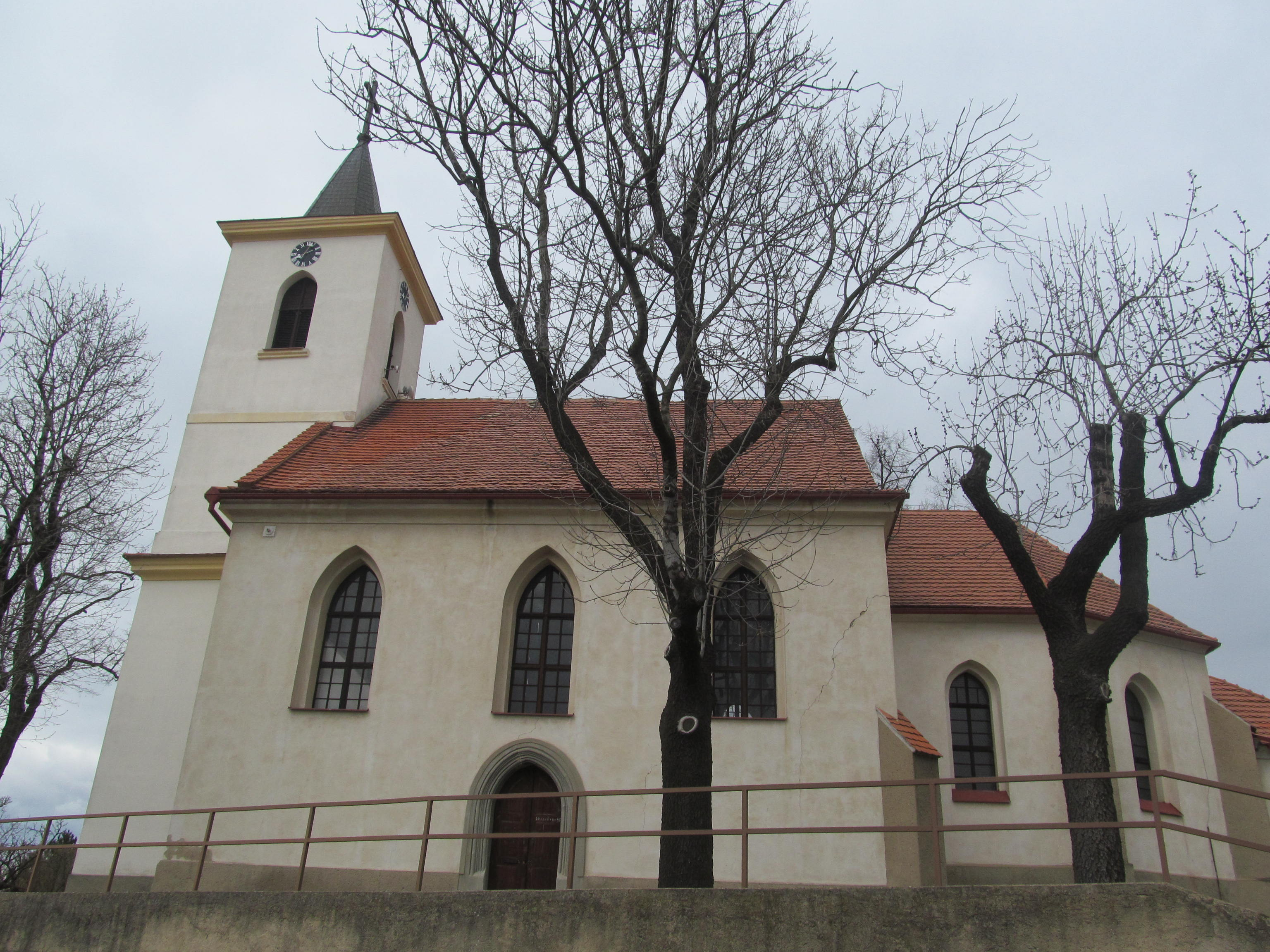 Church of Saint John the Baptist in Klapý